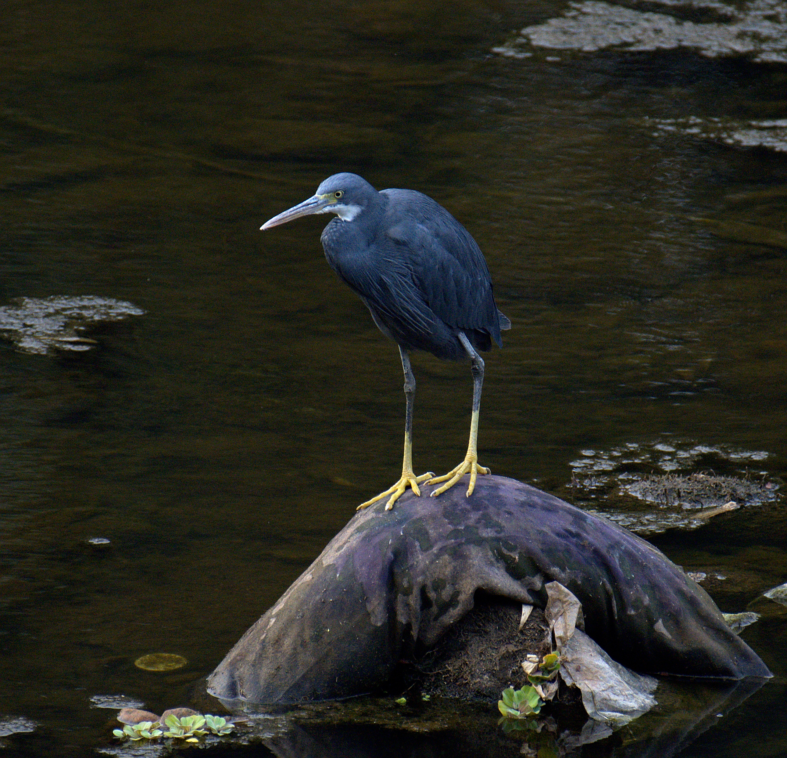 Western reef heron, the western reef heron (Egretta gularis) also called the western reef egret, is a medium-sized heron found in southern Europe, Africa and parts of Asia.